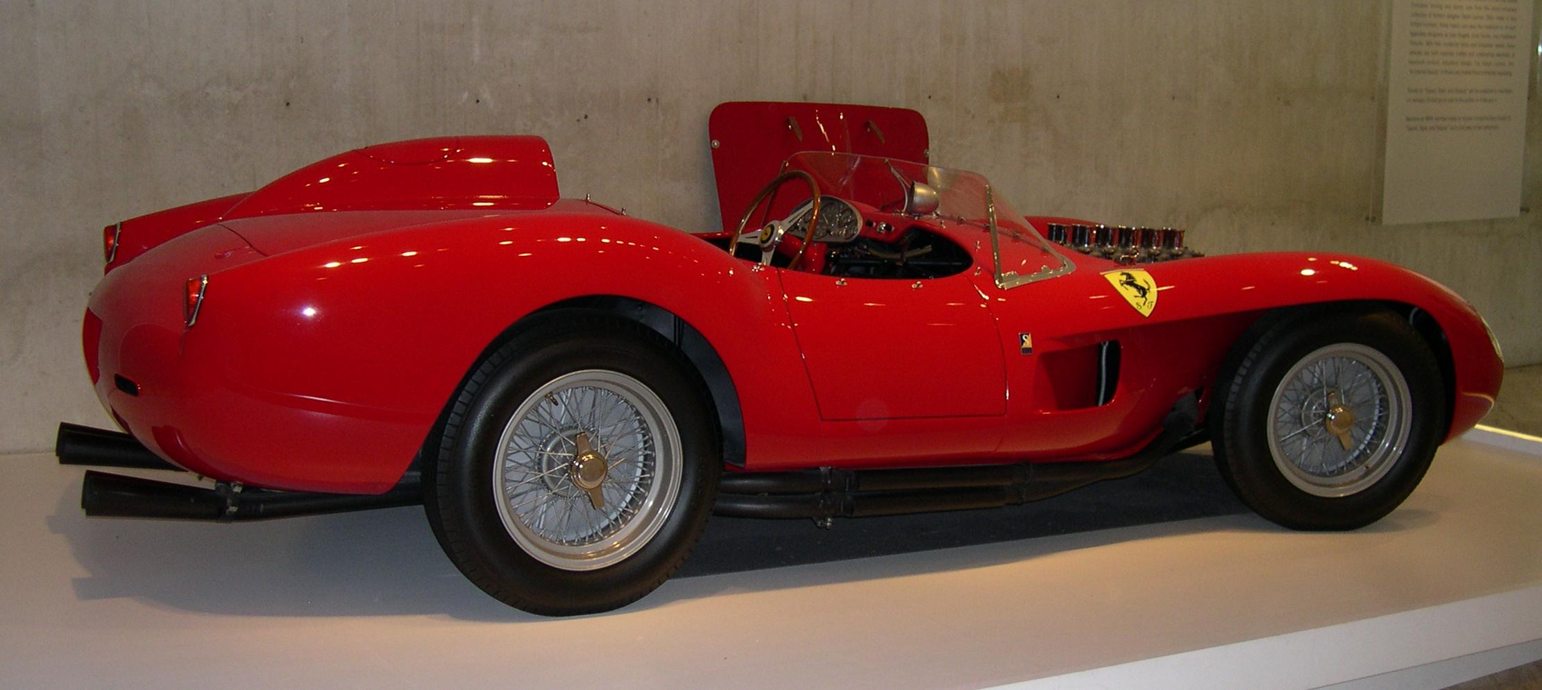 1958 Ferrari 250 Testa Rossa Scaglietti-bodied 250 racer from the Ralph Lauren collection on display at the Boston Museum of Fine Arts. Photo taken in 2005. Source: Photo by User:Sfoskett